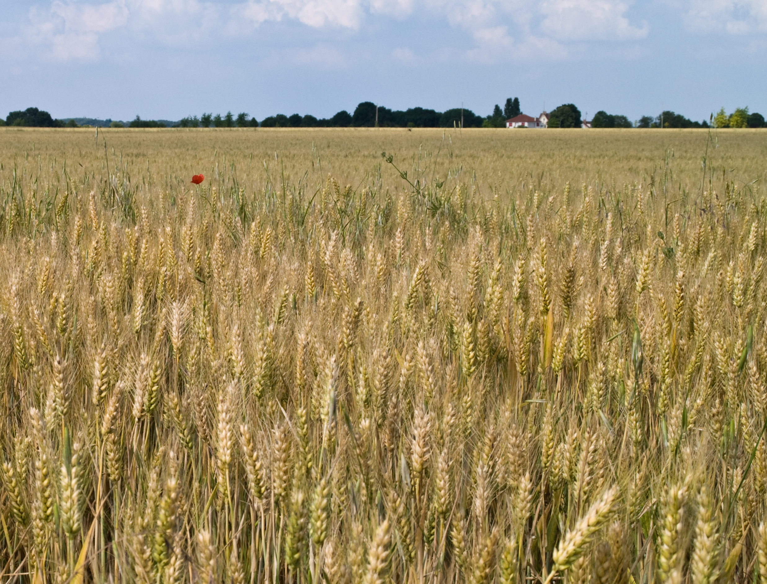 Wheat field in Seine-et-Marne (Île-de-France, France).